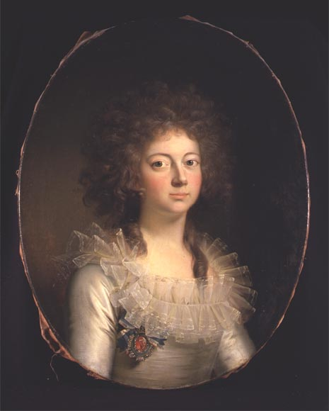 Portrait of Marie of Hesse-Kassel (1767-1852)